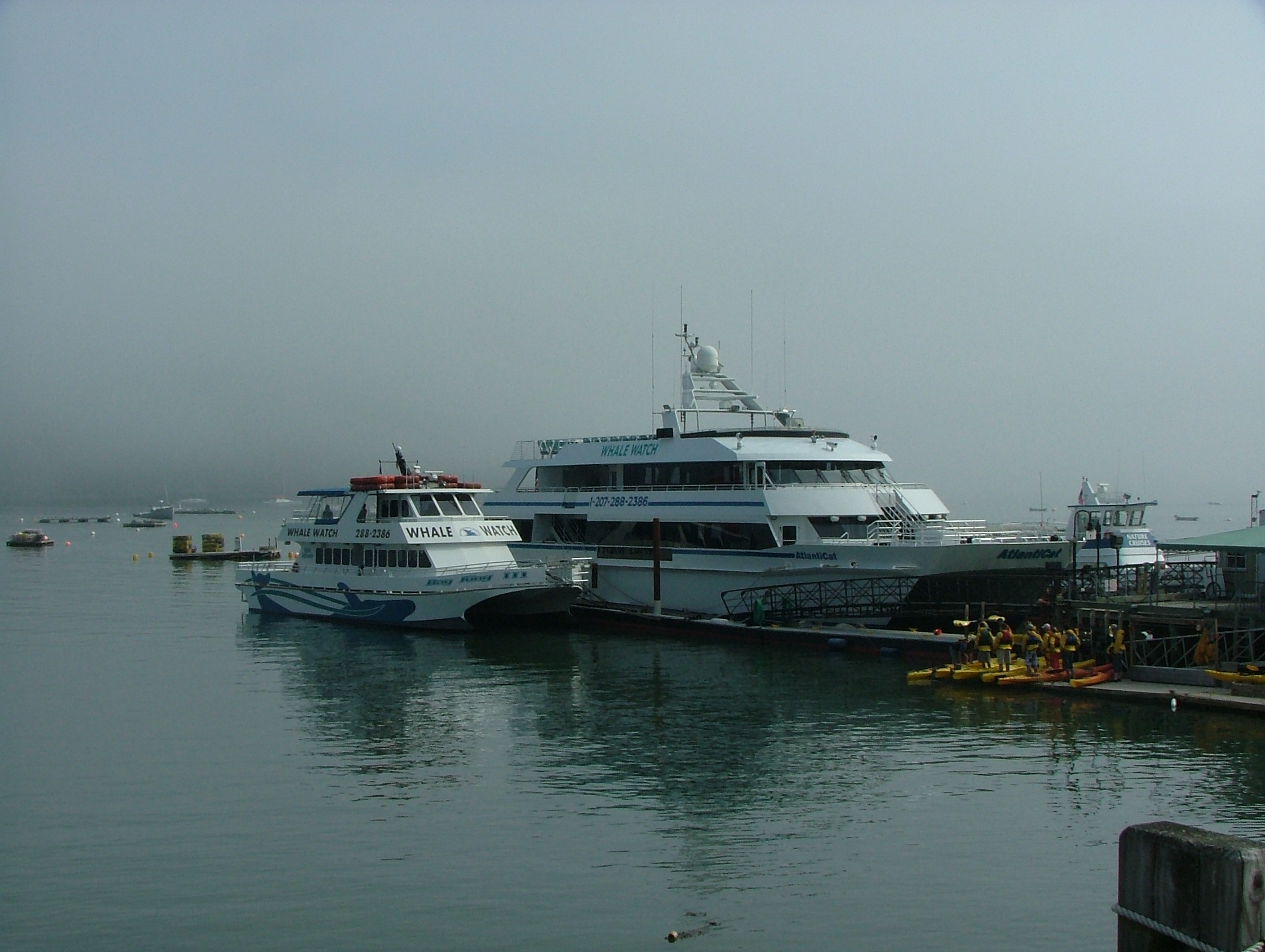 Whale trip boats in Bar Harbor, Maine